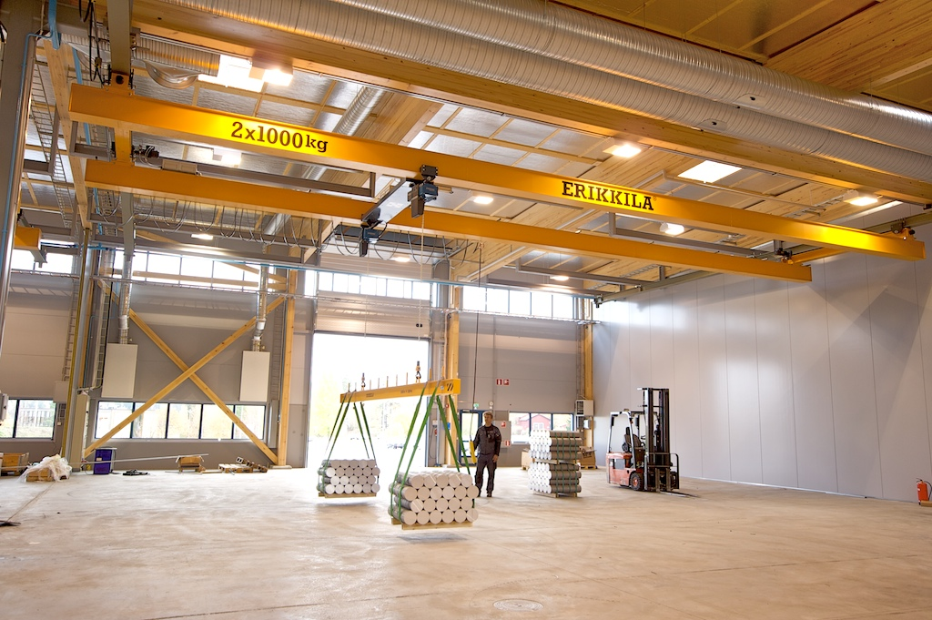 Overhead bridge crane used with a lifting beam in a factory in Finland. The lifting capacity of the crane is 2 x 1000 kg.